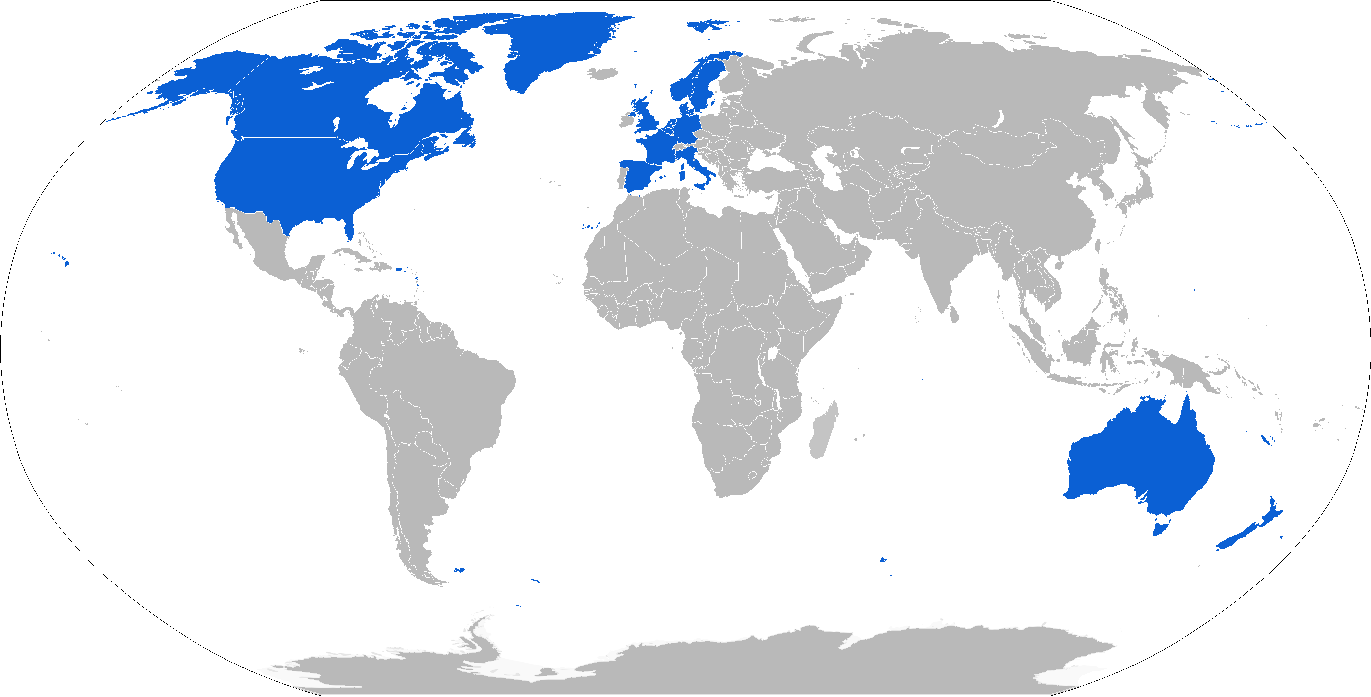 Map of the Fourteen Eyes contries